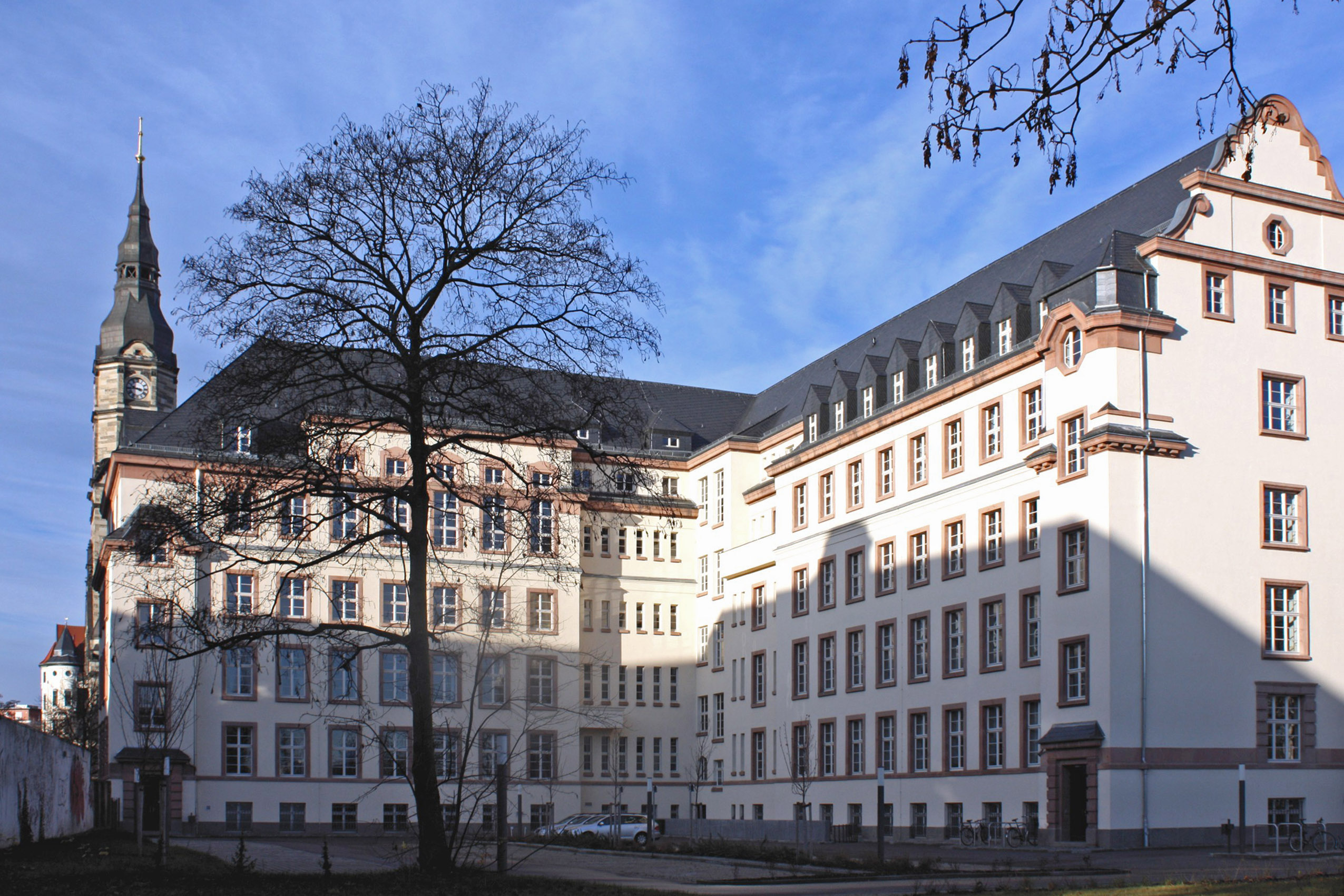 Leipzig, Finanzamt II (Nordplatz 11)